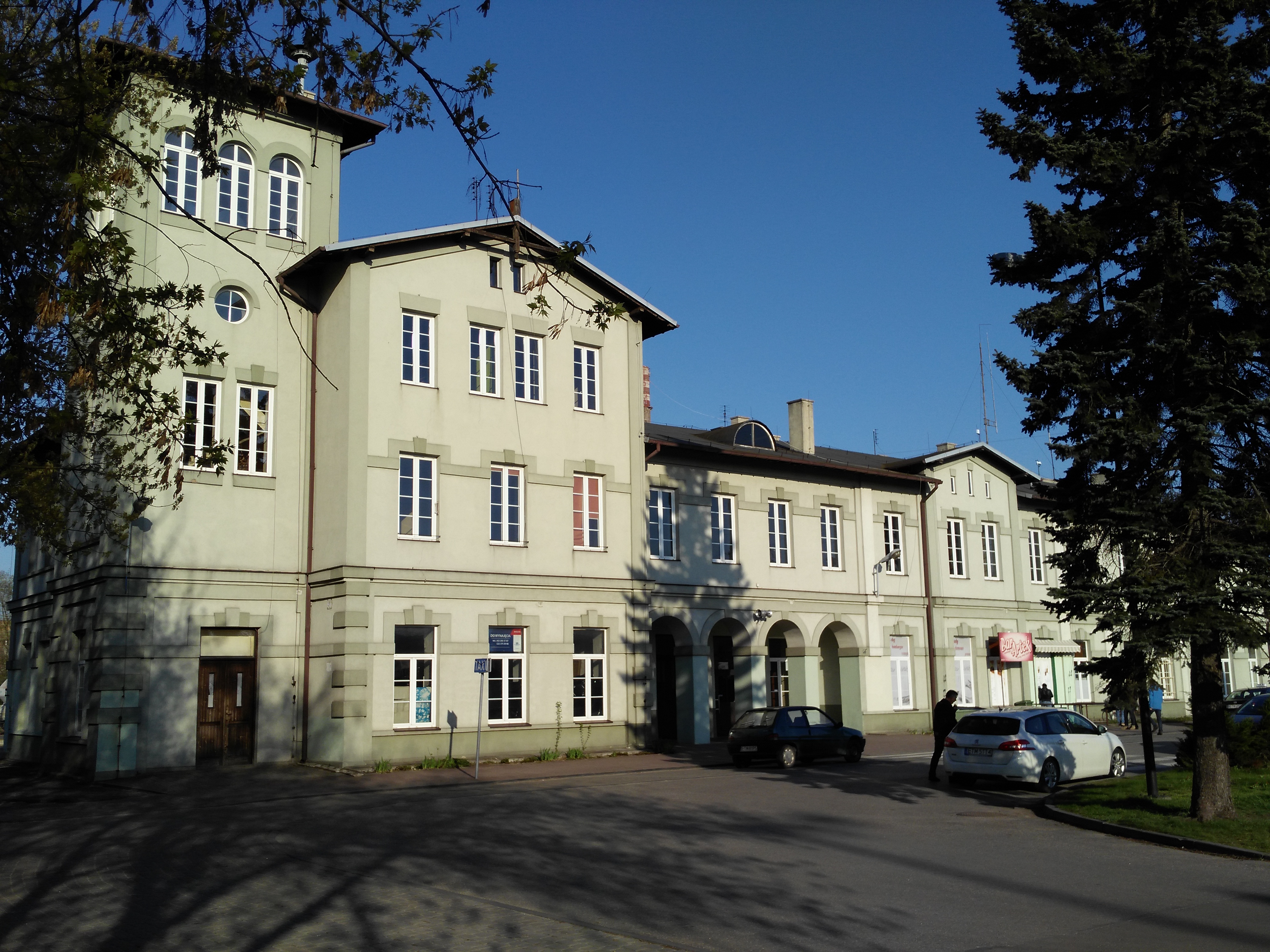 Tomaszów Mazowiecki, województwo łódzkie, Polska. Dworzec kolejowy. Miasto otrzymalo polaczenie kolejowe w 1884 roku. Wówczas na trasie Koluszki - Dęblin (wówczas Iwanogród)